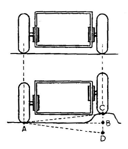 Sliding pillar suspension, schematic Independent front suspension by vertical movement along a sliding pillar.